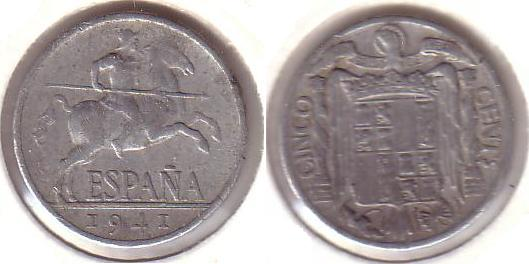 5 cents